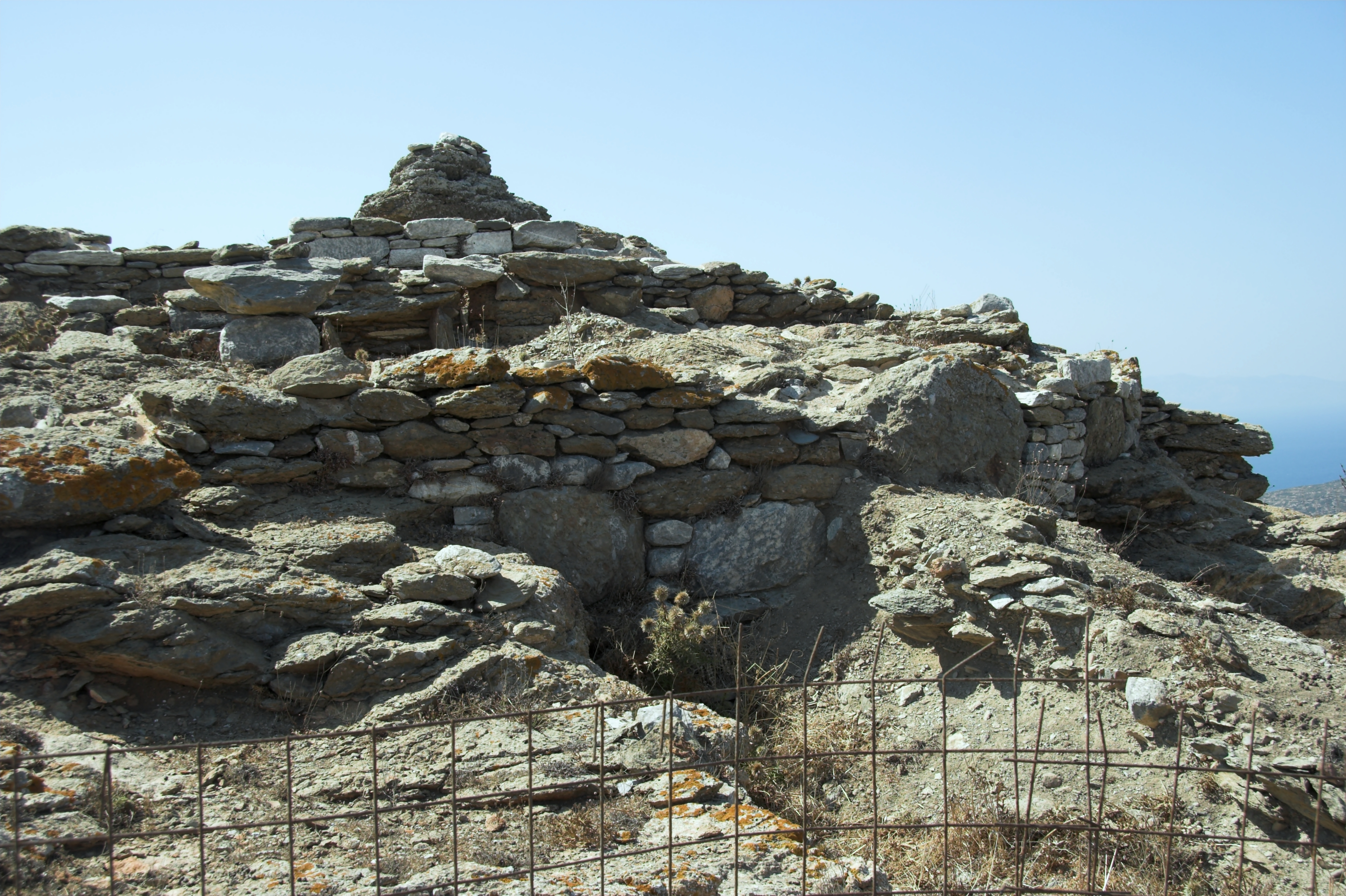 Starokykladská shrine atop the Amorgu Minoa. Continuity cult place from the 4th millennium to the 4th century BC.